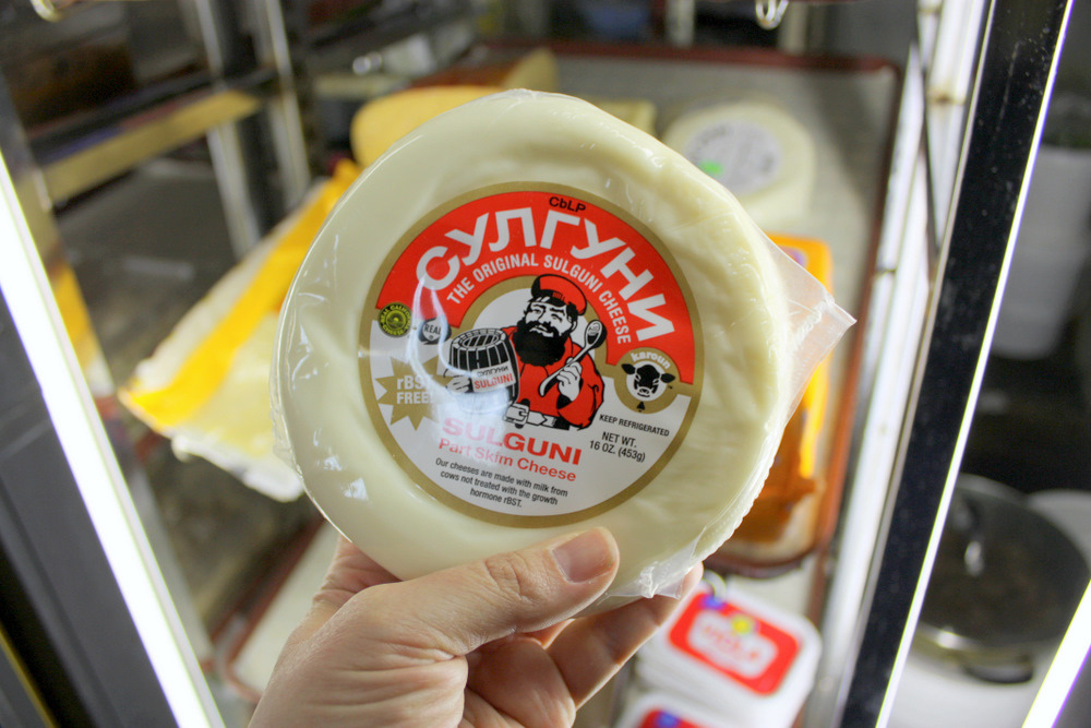 Here's Wikipedia's description of this Georgian cheese: "Pickled Georgian cheese from the Samegrelo region. It has a sour, moderately salty flavor, a dimpled texture, and an elastic consistency; these attributes are the result of the process used, as is the source of its moniker 'pickle cheese'. Its color ranges from white to pale yellow. While the smell is not universally appealing, the flavor is rewarding. Suluguni is often deep-fried, which helps mask the odor. It is often served in wedges."